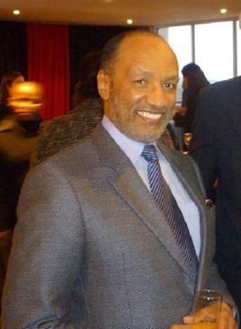 Mohammed Bin Hamam